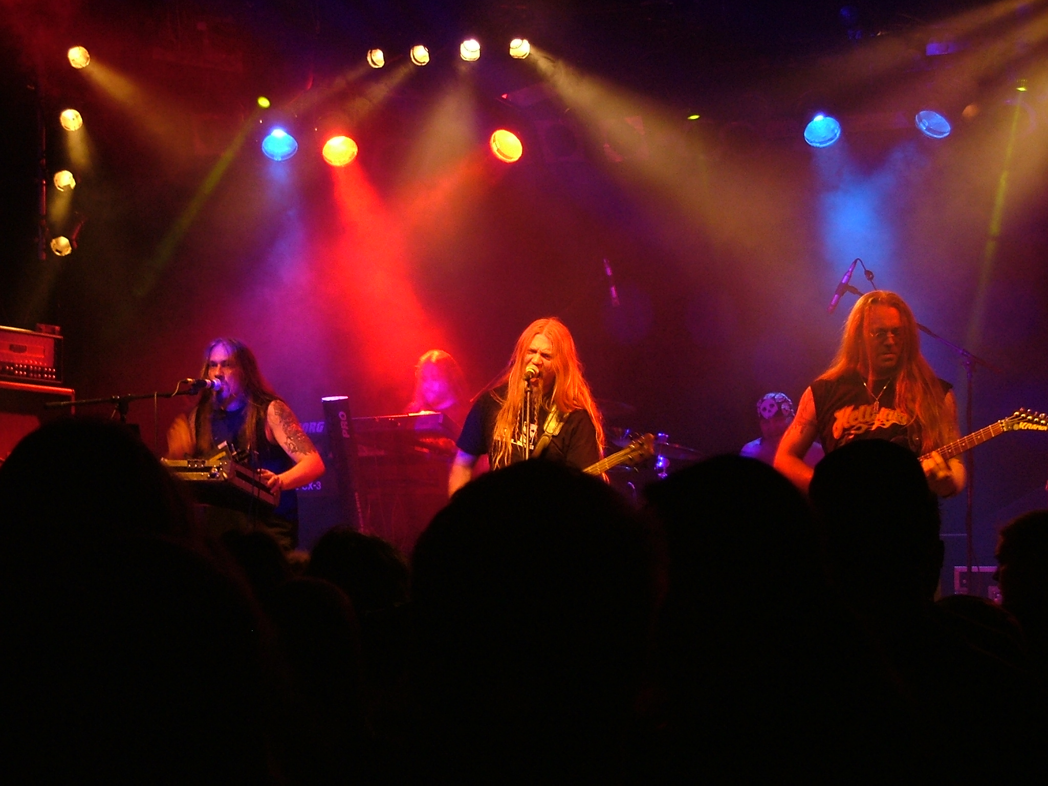 Finish Heavy-Metal-Band Tarot at the Earthshaker Roadshock on May 4th 2007 at club „Hirsch“ in Nuremberg